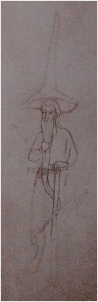 Depiction of the Wandering Jew in a 13th century manuscript of Augustine's Tractatus in epistolam Iohannis. Rendered in G. Leider, Miniaturen aus Handschriften der Bäyerischen Staatbibliothek in München, VII (Munich, 1924).